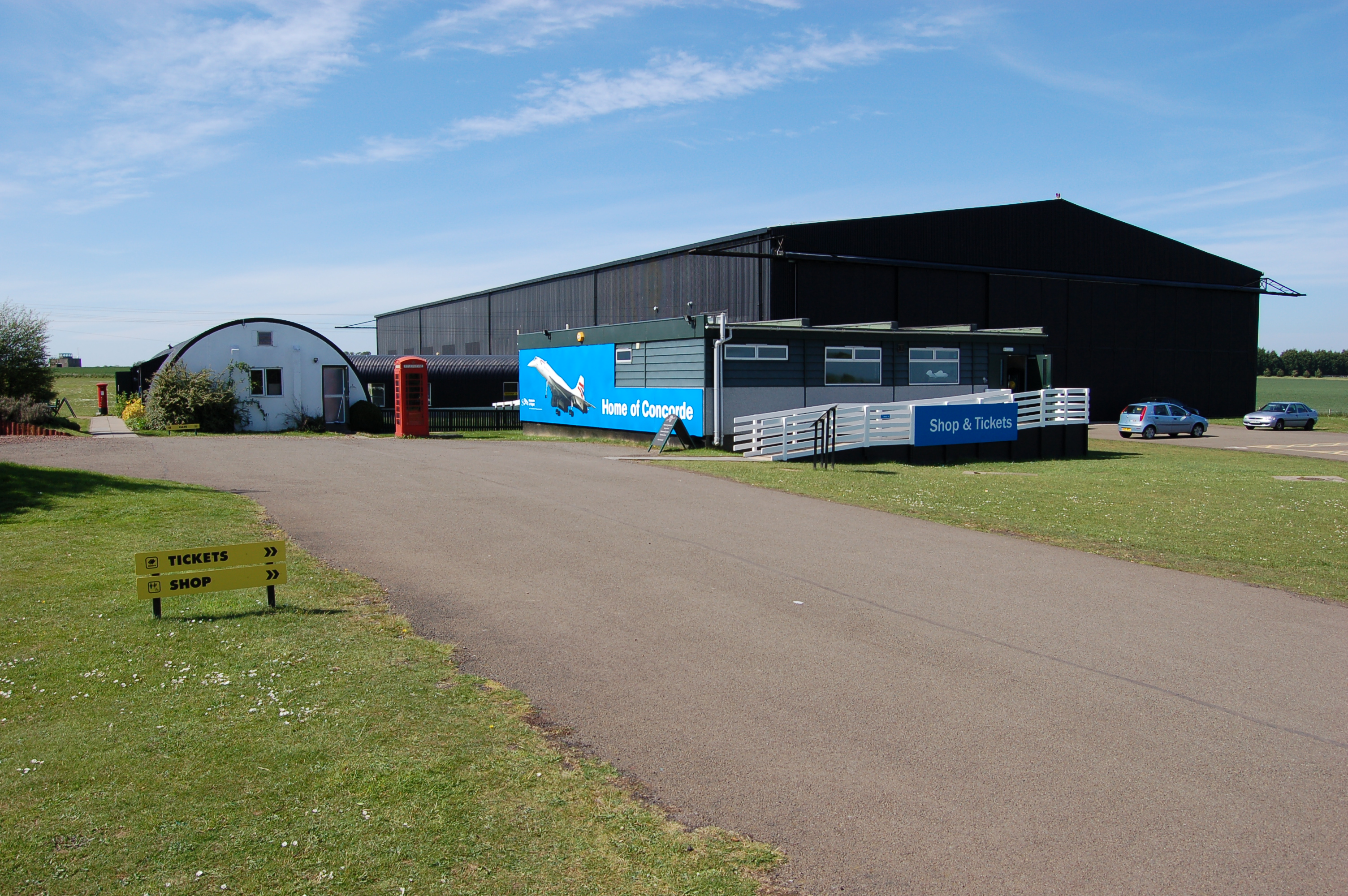 entrance to the National Museum of Flight, East Fortune, East Lothian, Scotland.